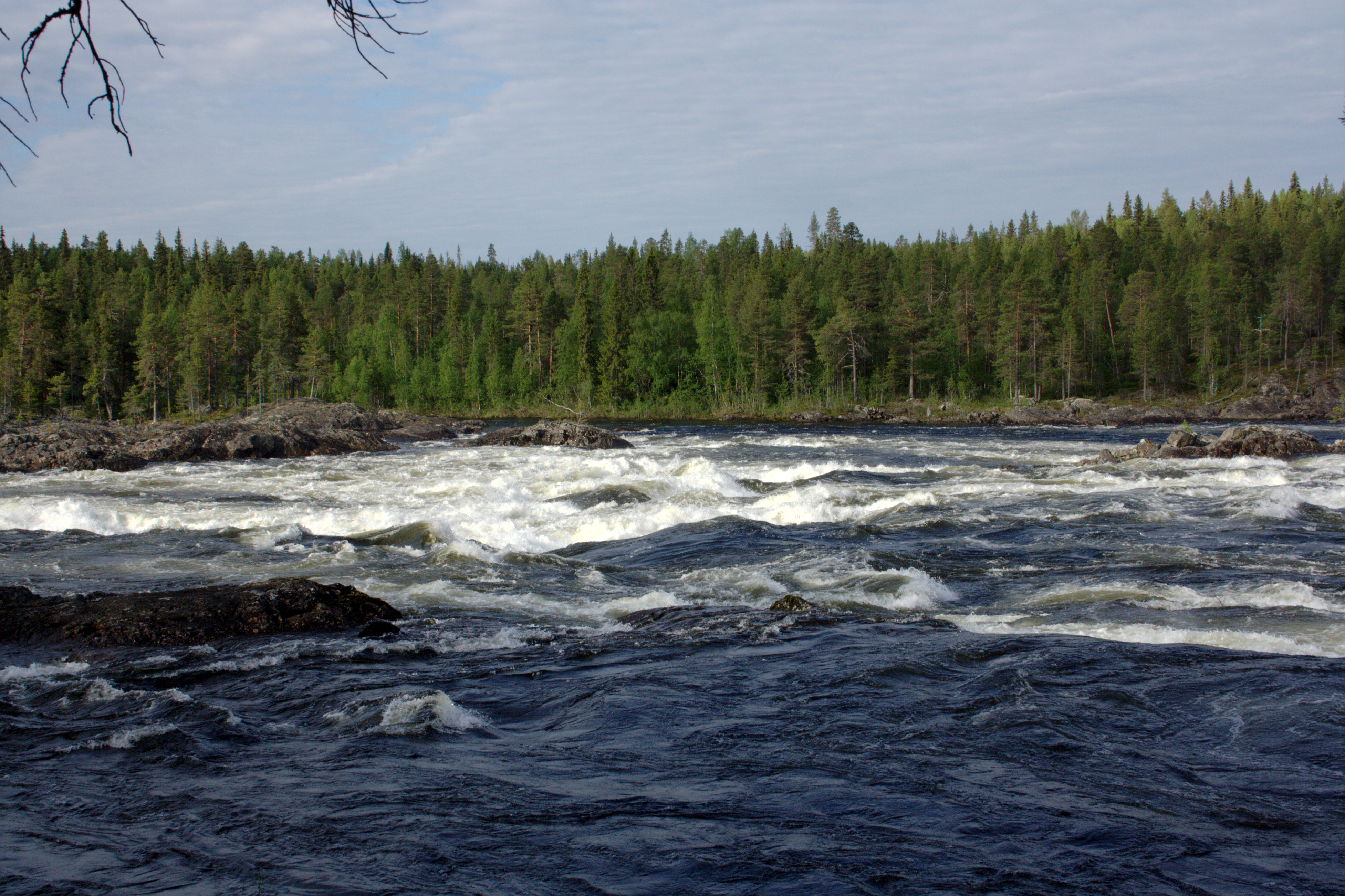 The nature reserve of Vindel-Storforsen